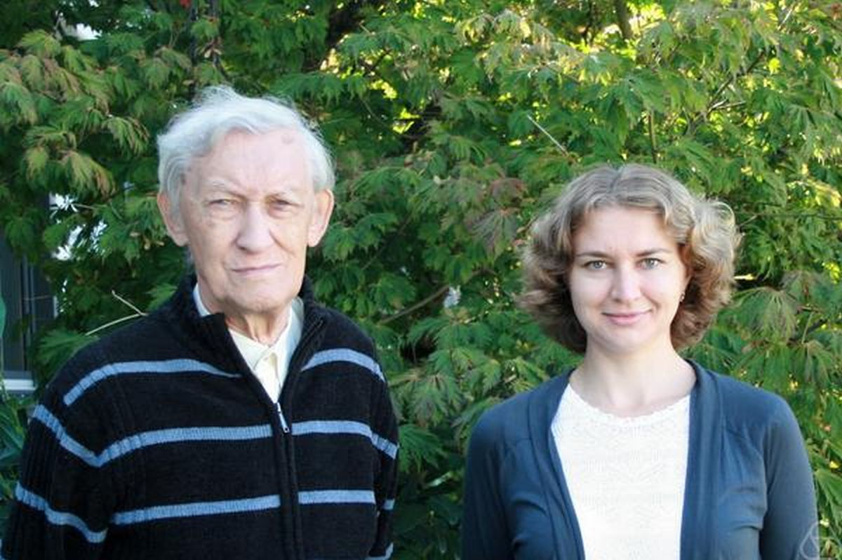 Arkady Onishchik, Elizaveta Vishnyakova (right), Oberwolfach 2012